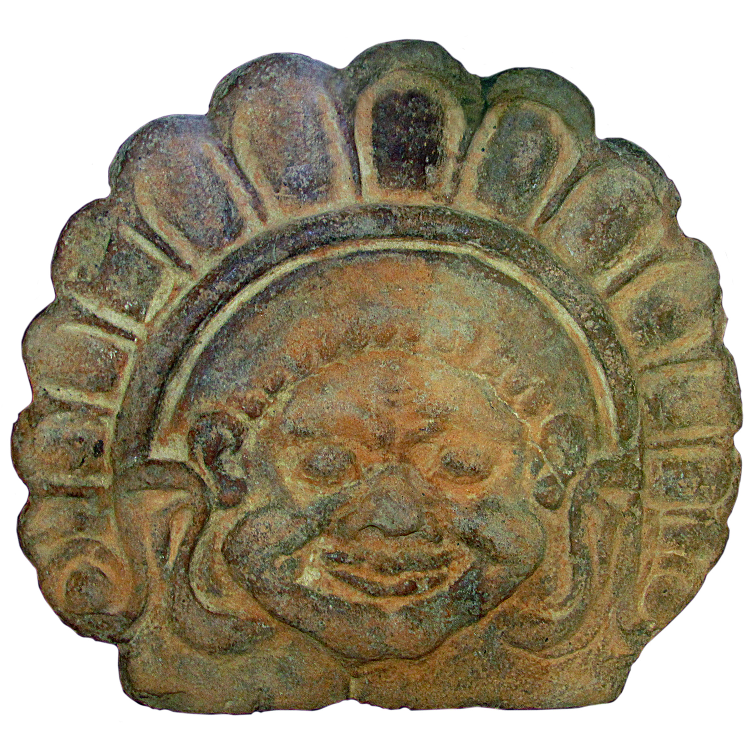 Antefix V century B.C. Mandralisca museum, Cefalù, Sicily